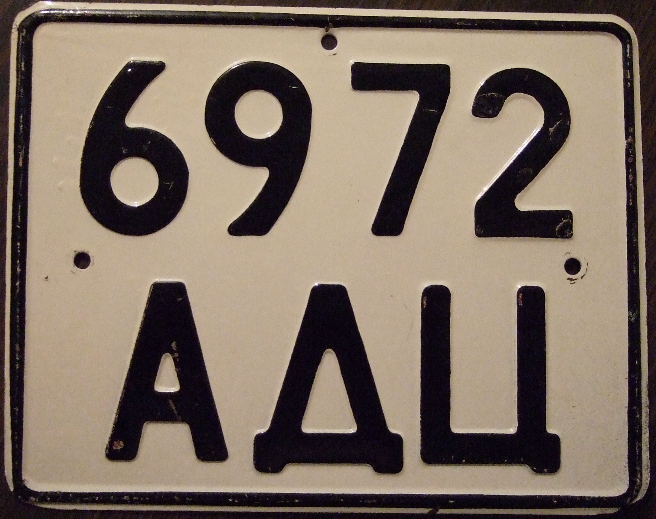 Yerevan is the leading industrial, scientific and cultural center of the Caucaus region and was the capital of the Armenian SSR and the capital of the independent nation today. Industries in the city include metals, machine tools, electrical equipment, food products chemicals and textiles. It is also a major regional agricultural trading center.